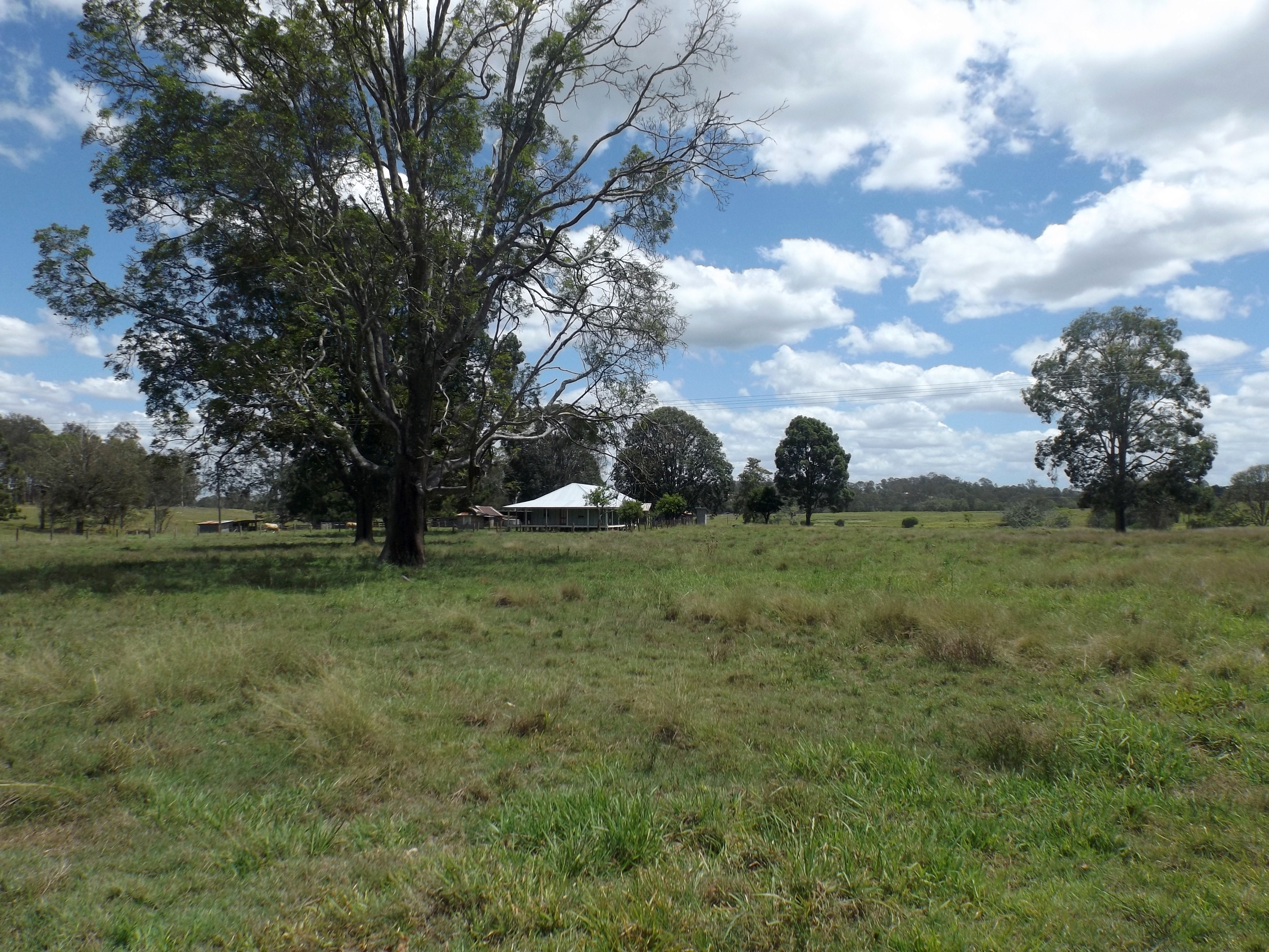 Photo of fields along Cedar Vale Road at Cedar Vale, Logan City, Queensland, Australia.